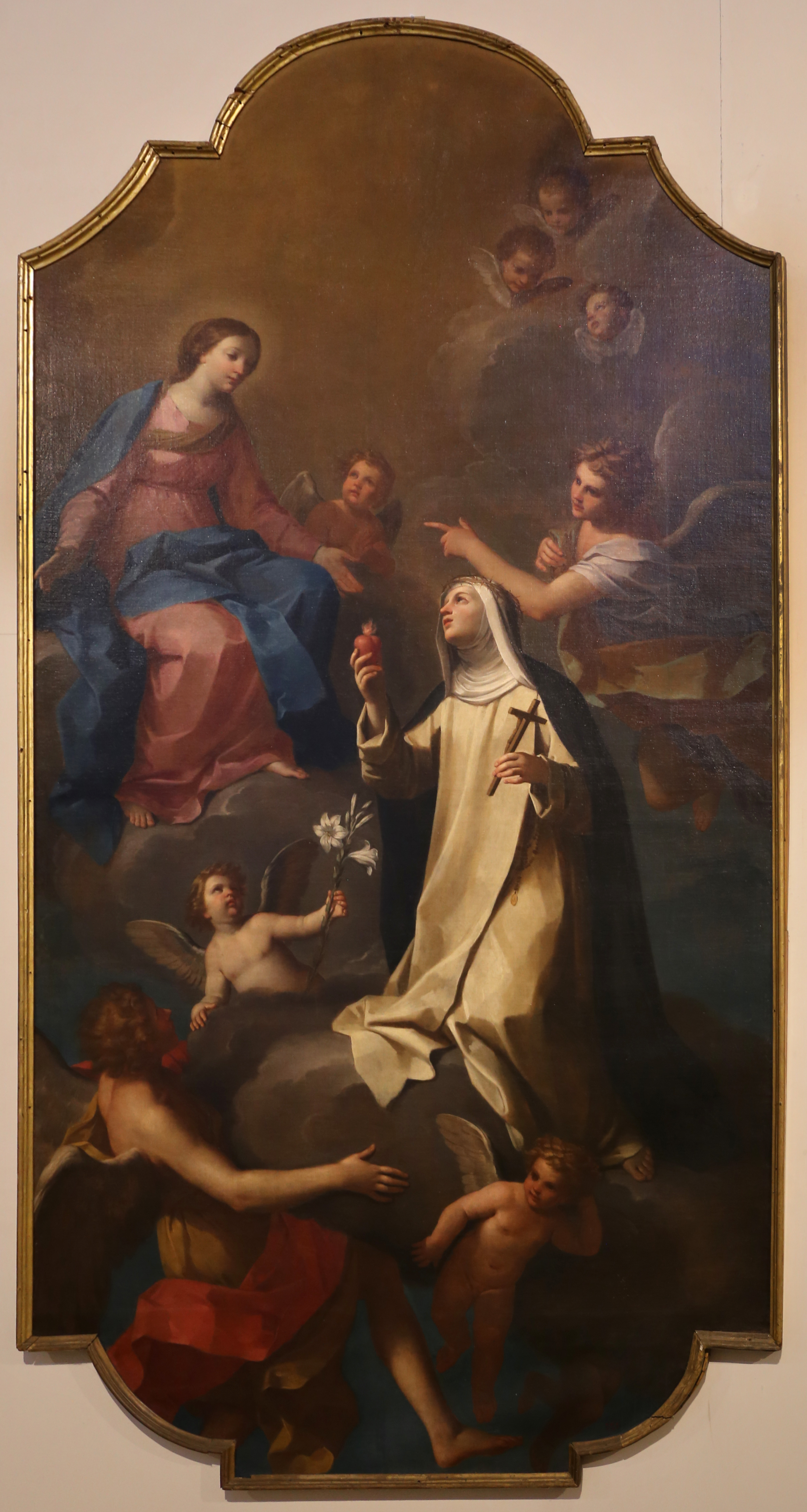 Collections of Palazzo Ducale (Mantua)